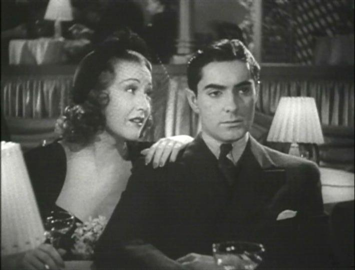 Screenshot of Ethel Merman and Tyrone Power from the trailer for the film Alexander's Ragtime Band